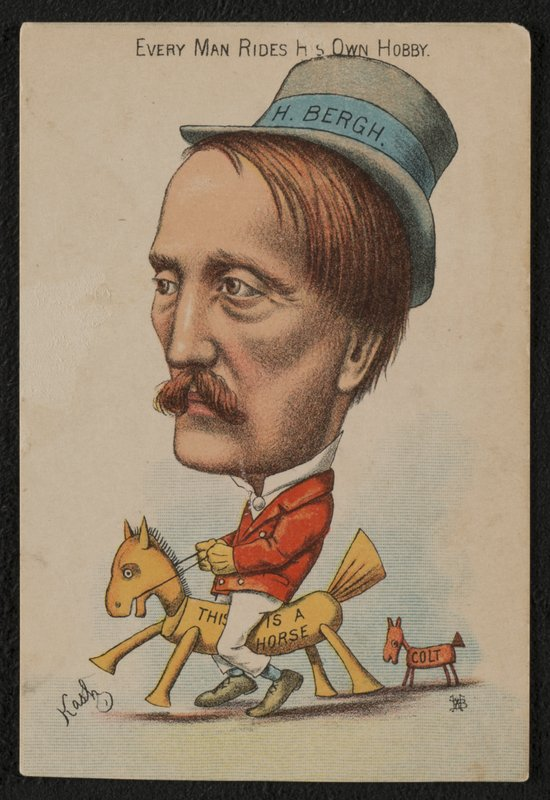 Late 19th-century trade card featuring Henry Bergh, signed "Kash" (Cassius Marcellus Coolidge)